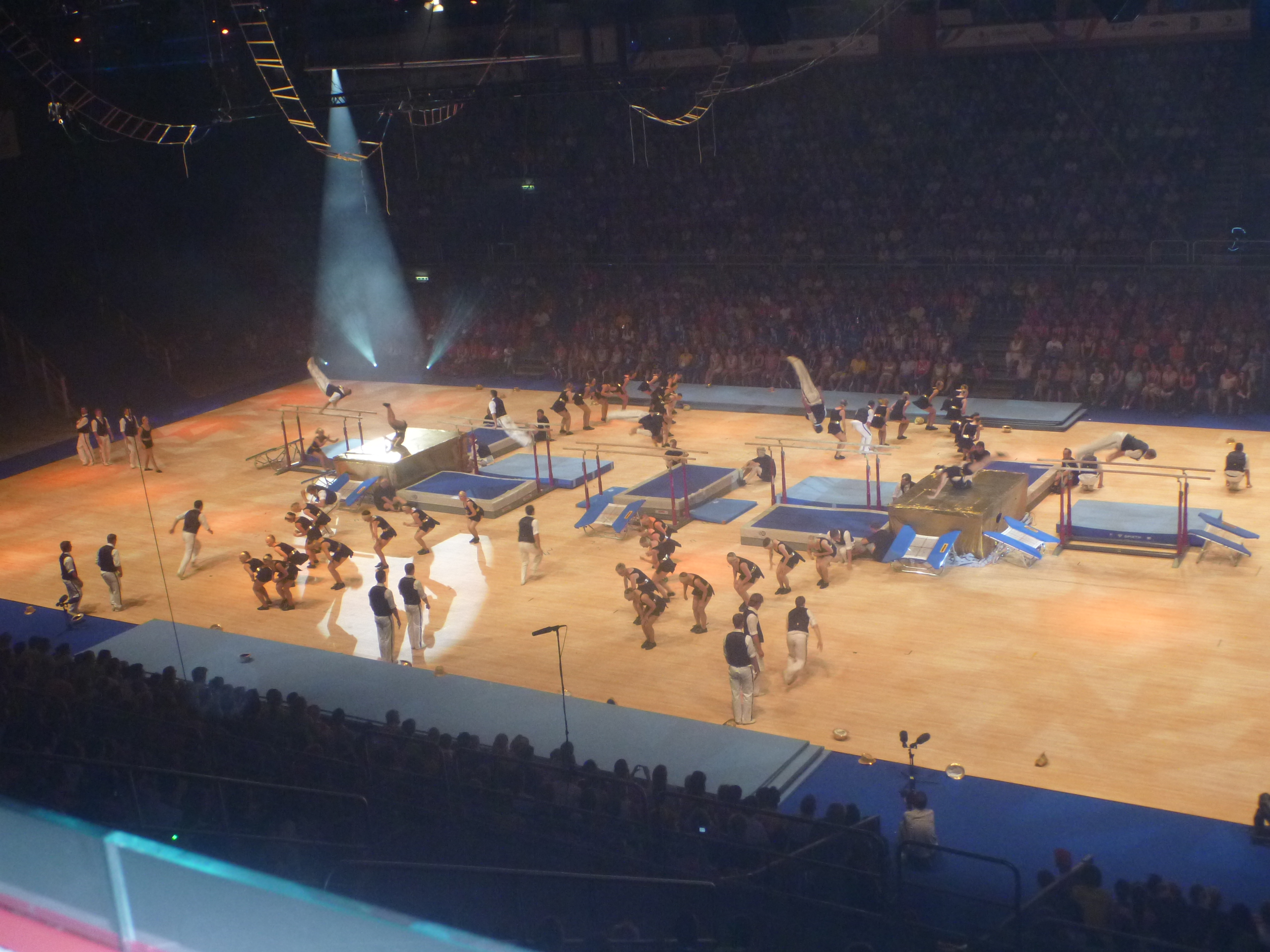 Gymnaestrada 2011. Switzerland's evening program.